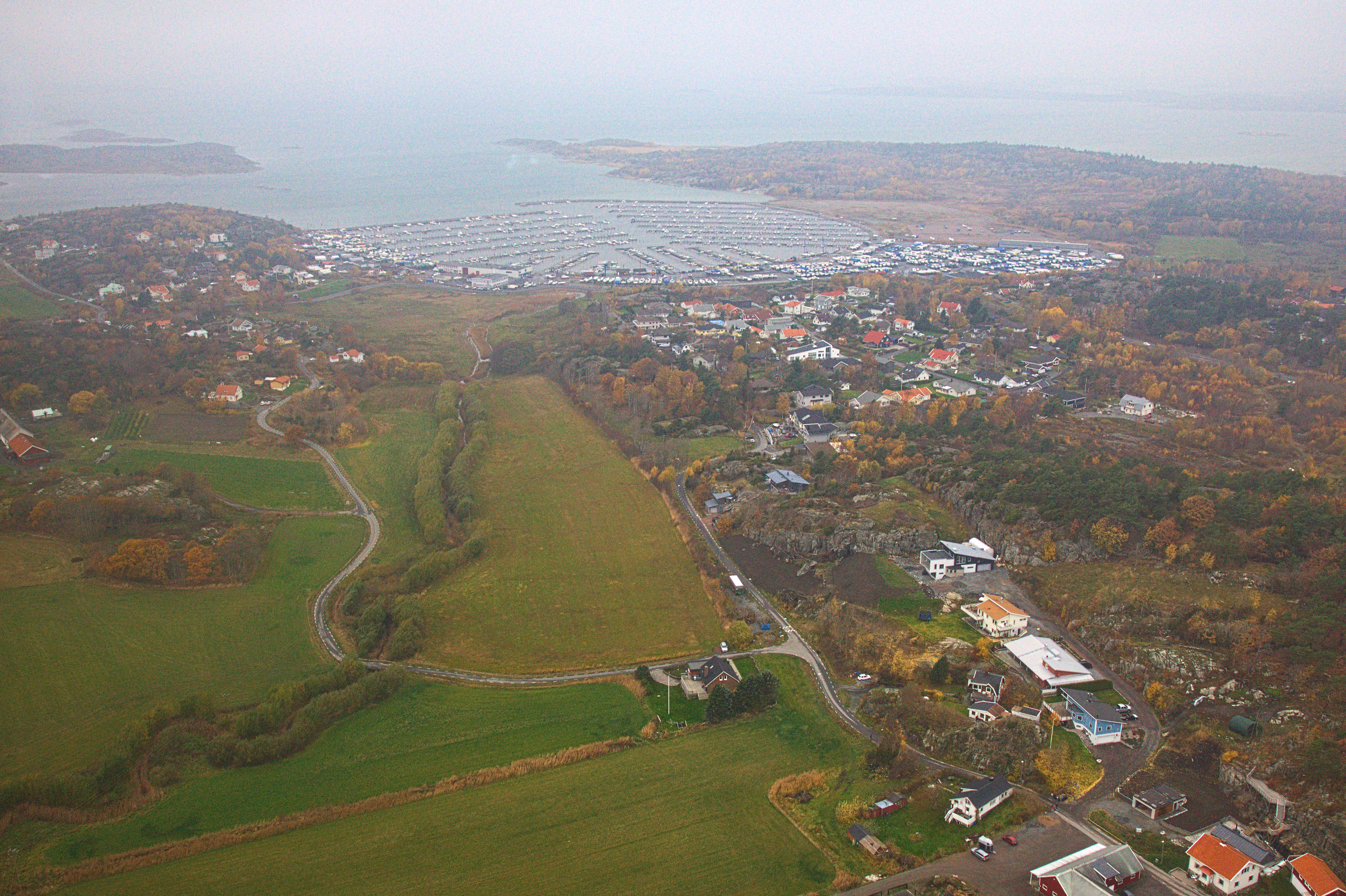 Photo taken on at helicopter over Gothenburg This aerial photograph has been approved for publishing by the Swedish Armed Forces with the ID: 10830:80662 This tag does not indicate the copyright status of the attached work. A normal copyright tag is still required. See Commons:Licensing.